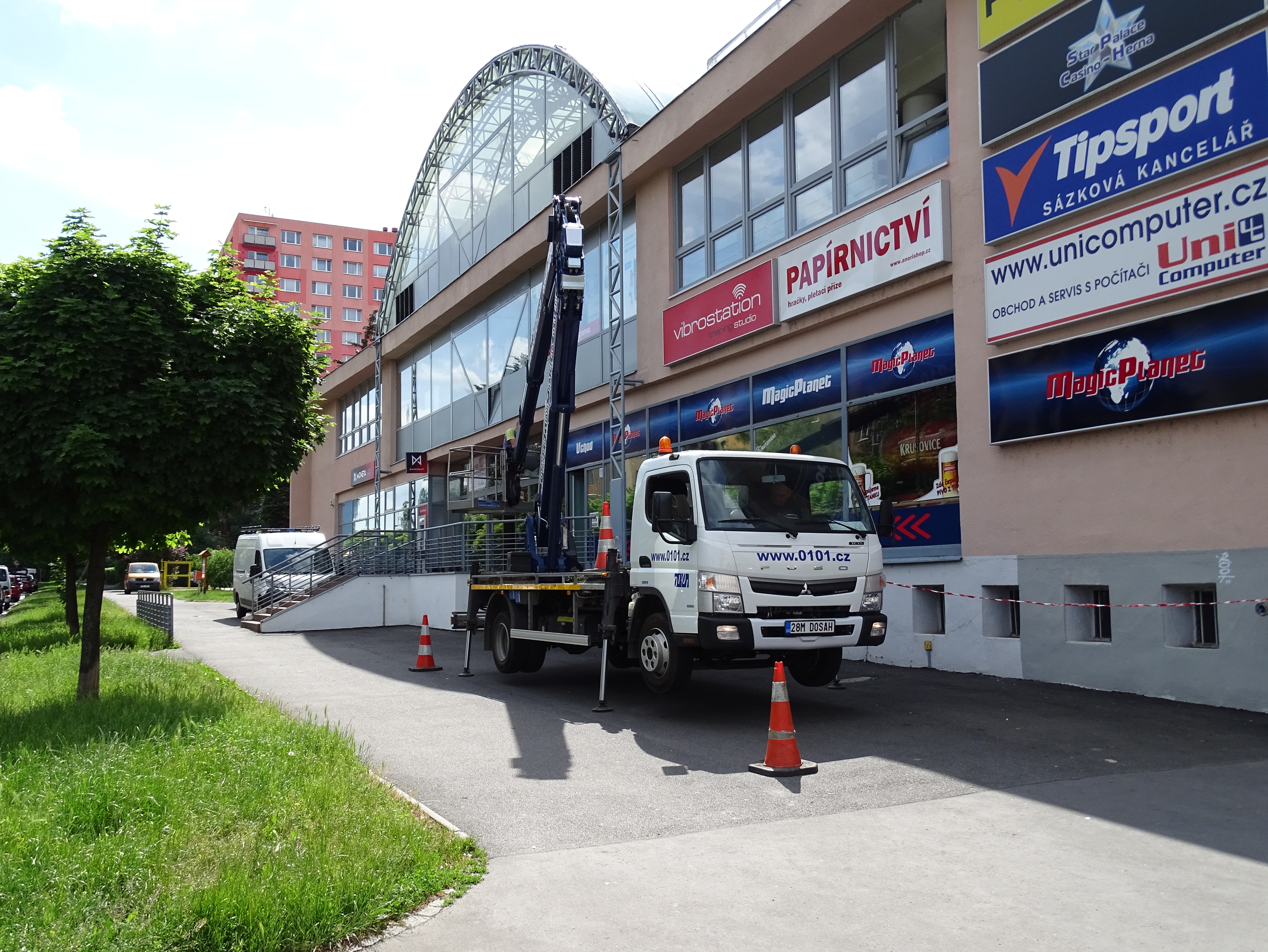 Prague-Záběhlice, Czechia, Jahodová street, Cíl shopping centre, an aerial work platform truck.